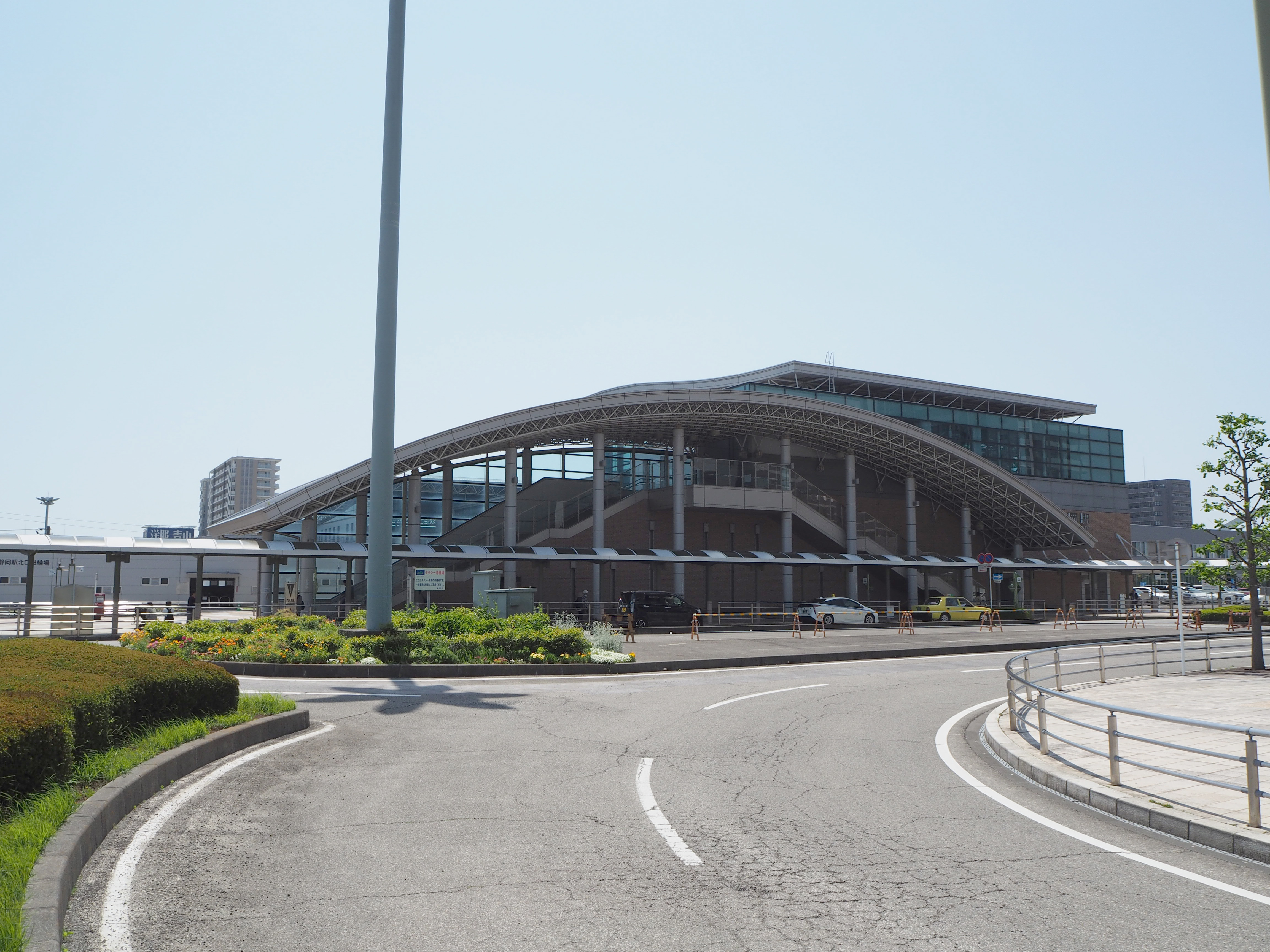 North entrance of Higashi-Shizuoka Station